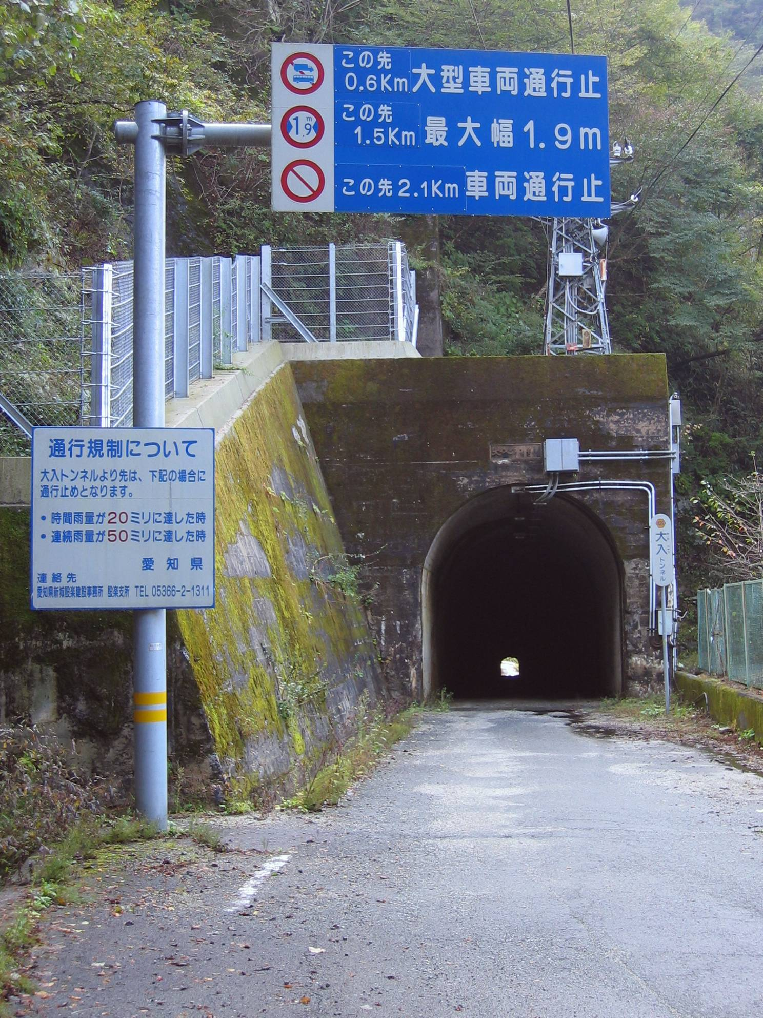 North portal of Ōnyū Tunnel on the Aichi Prefectural Road Route 429